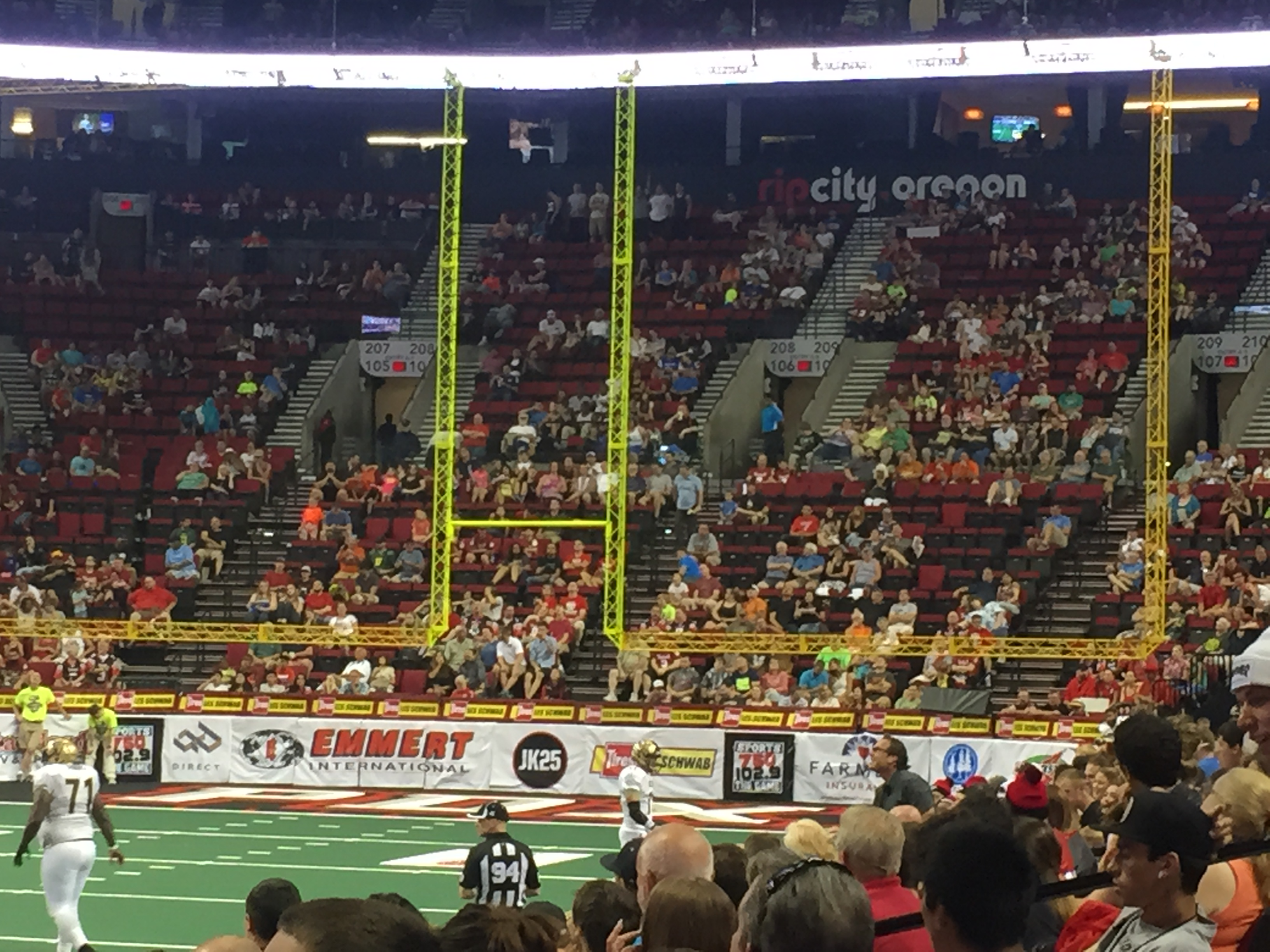 Arena Football League's signature 9-feet-wide goalposts and rebound nets used during the August 1, 2015, game between the Las Vegas Outlaws and Portland Thunder at the Moda Center.